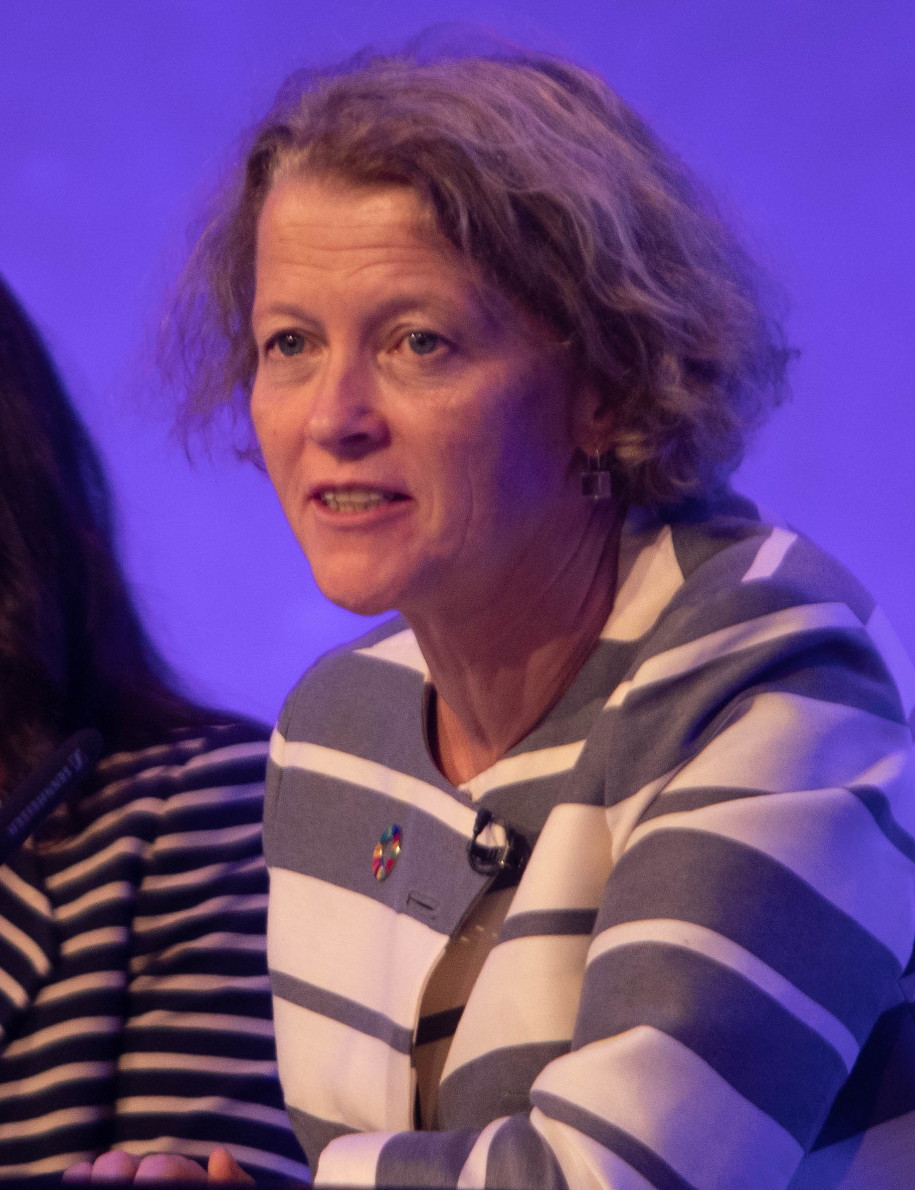 Safeguarding 2018 Conference Charlotte Watts, Chief Scientific Adviser at the Department for International Development speaks at the Safeguarding Conference in London. 18/10/2018 ©DFID/MichaelHughes